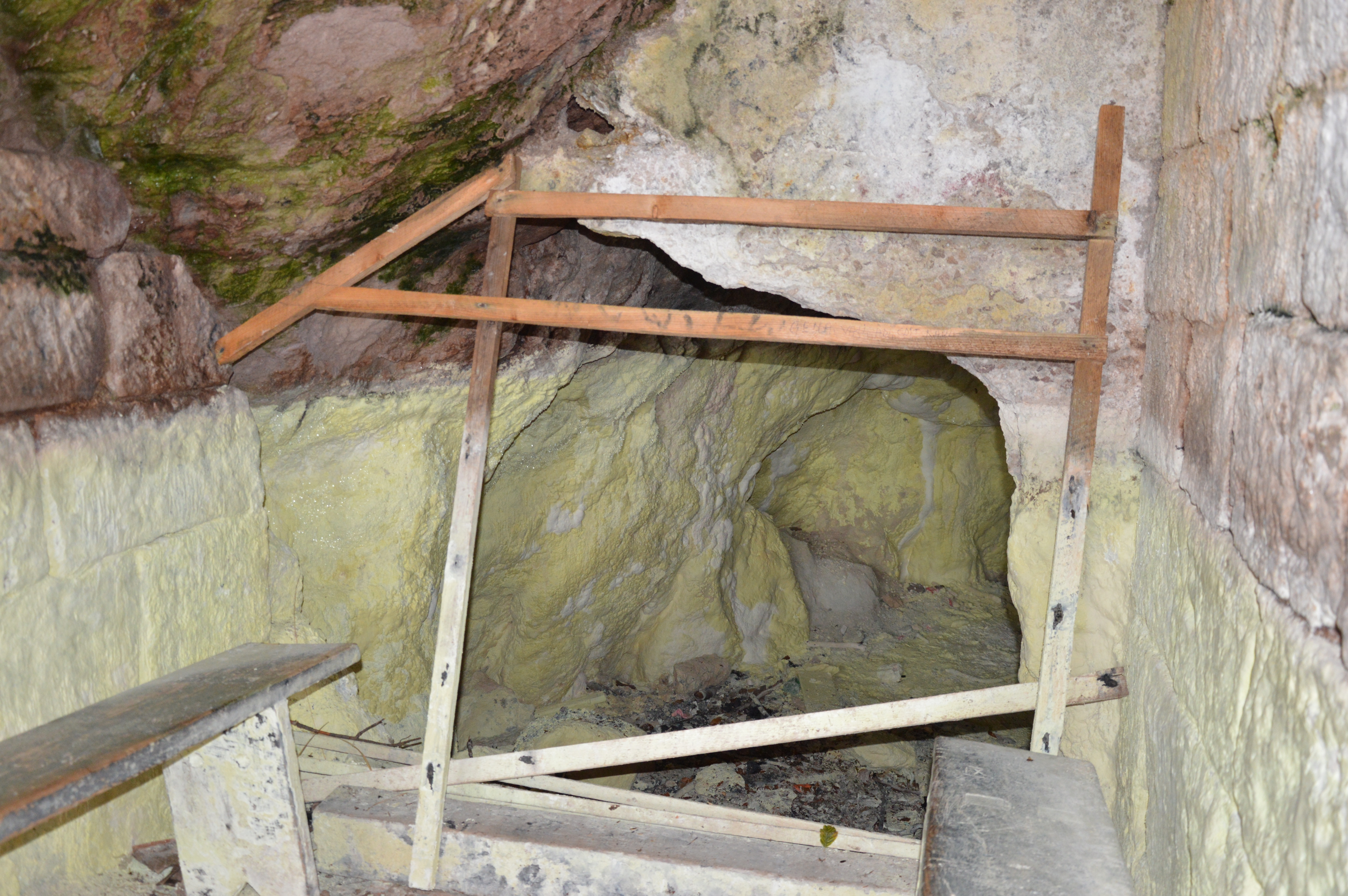 The Smelly cave of Torja